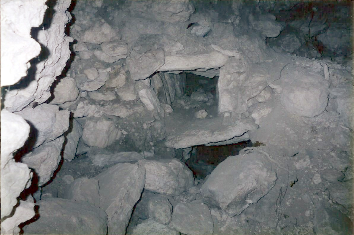 Looted tombs at the Maya ruins of Nakbe, Petén, Guatemala.